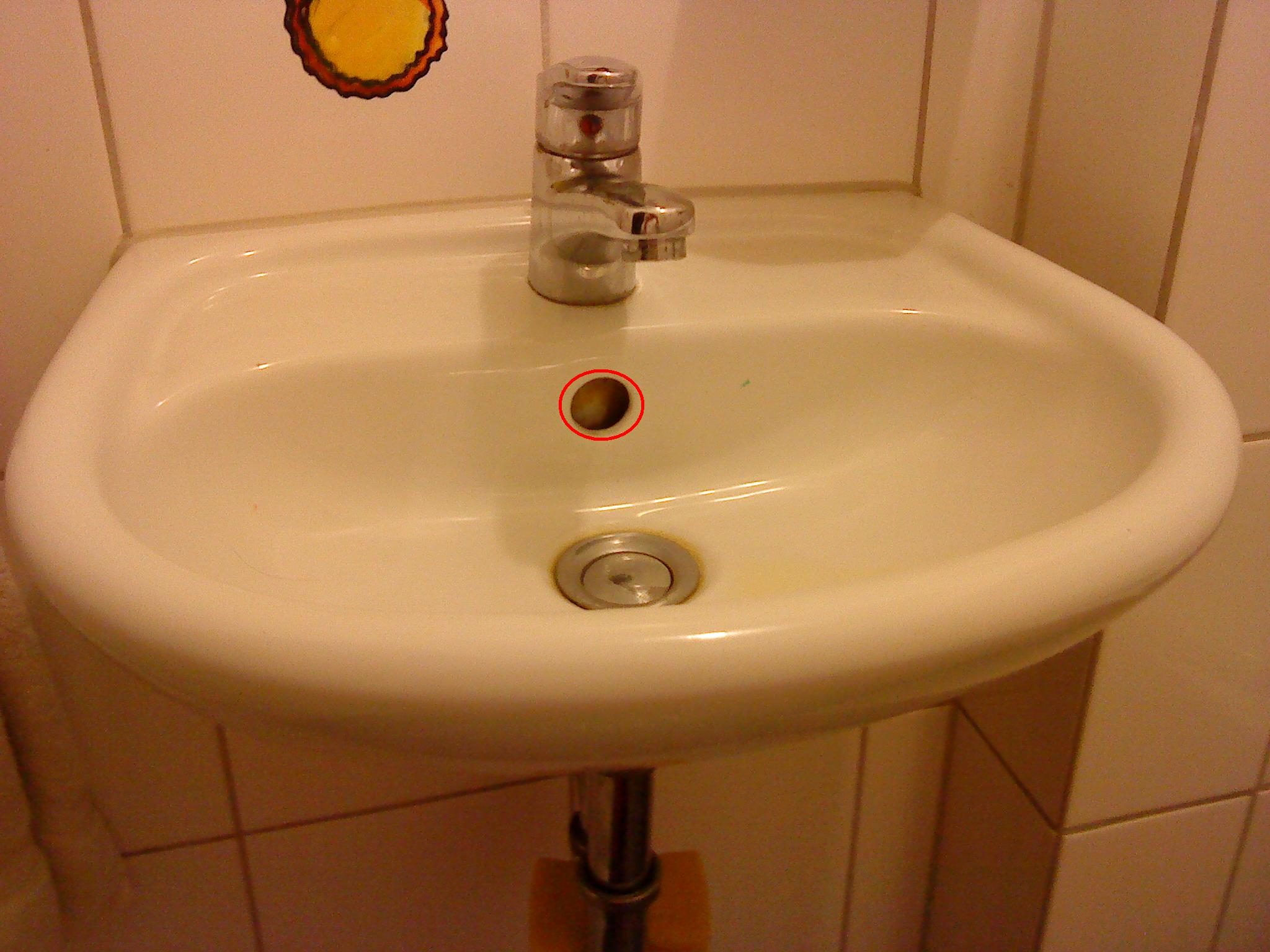 bathroom sink with overflow drain hole (red marking)